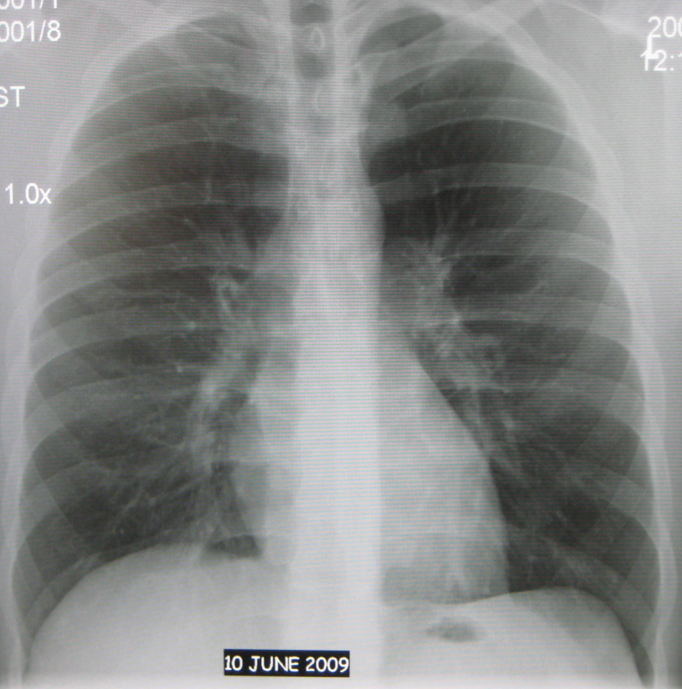 Normal AP chest xray